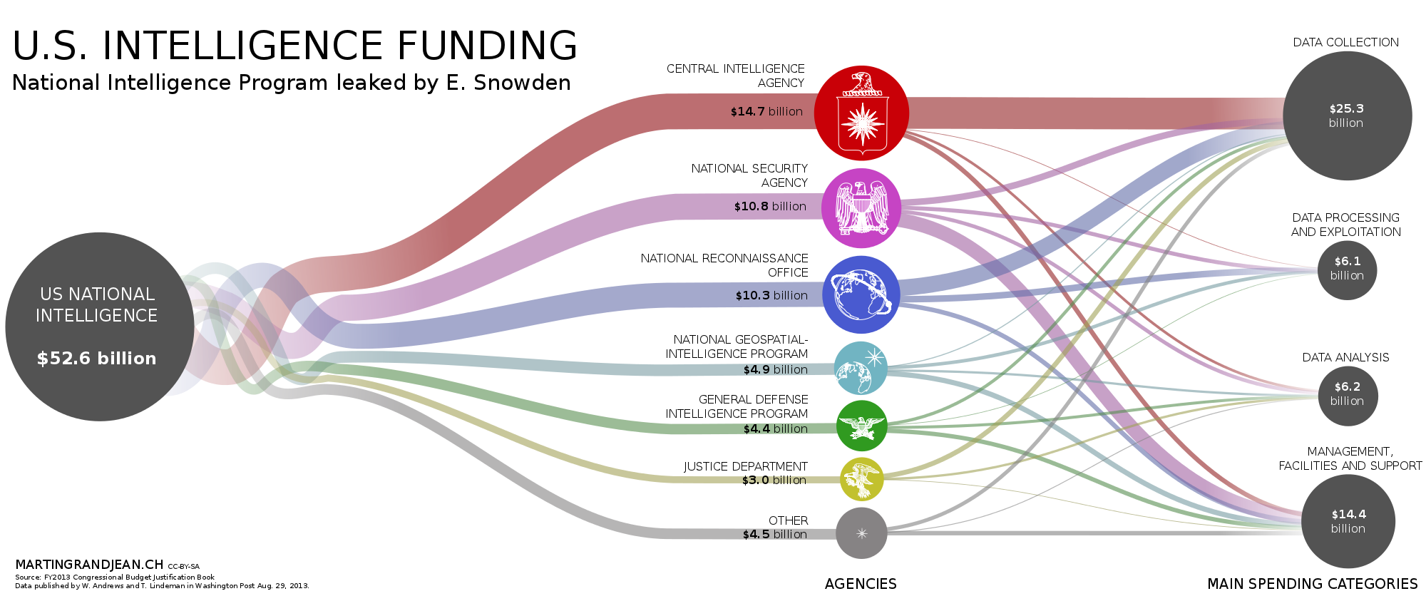 The top-secret documents recently released by Edward Snowden through the Washington Post reveal the funding of the U.S. intelligence agencies. It appears that the 2013 budget of the National Intelligence Program totaled $52.6 billion. This sum is divided among a multitude of actors, but five agencies are particularly endowed : CIA (28%), NSA (21%), NRO (20%), NGP (9%) and GDIP (8%). About the use of money, four category are distinguished. An important part of the total amount is spent in the “data collection” category (gathering raw information, surveillance, satellites, covert actions…). The data is then exploited and analyzed. The “management” category is also financially important (determining issues and tasks). Source: Grandjean, Martin (2013) Data Visualization: The top-secret U.S. intelligence “black budget”